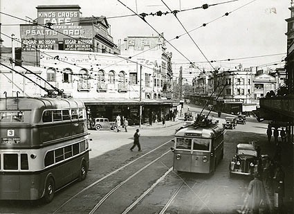 First official trip of the double-decker trolleybus no 3 (left) from Rushcutters Bay Depot through Kings Cross. Single-decker trolleybus no 2 is at right.